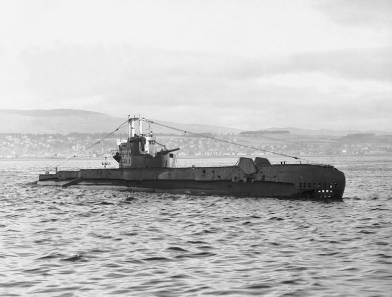 British S class submarine HMSM SENTINEL underway in the Clyde.